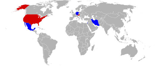 Operators of the Sea Stallion